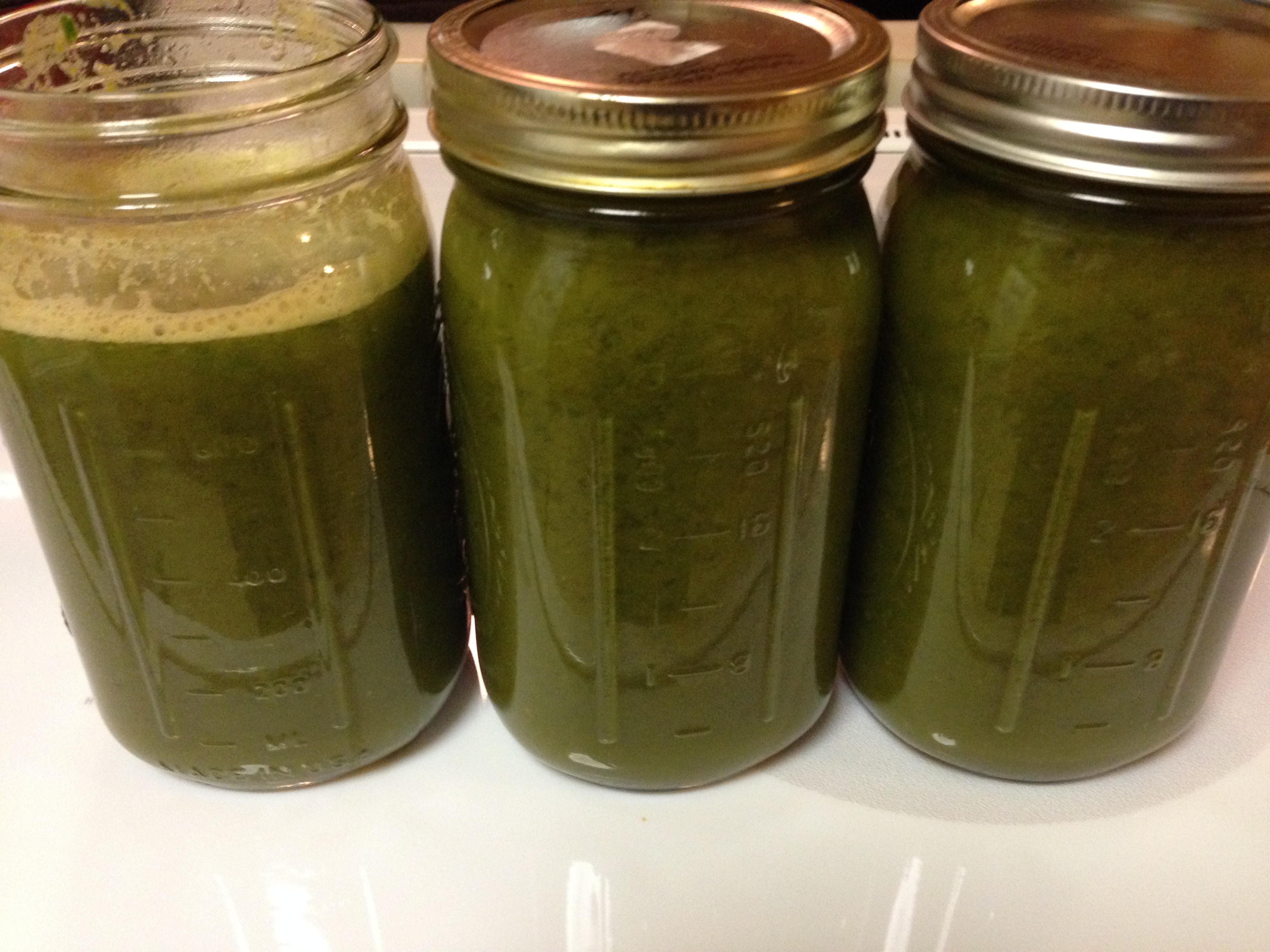 mason jars filled with the juice of vegetables and fruit